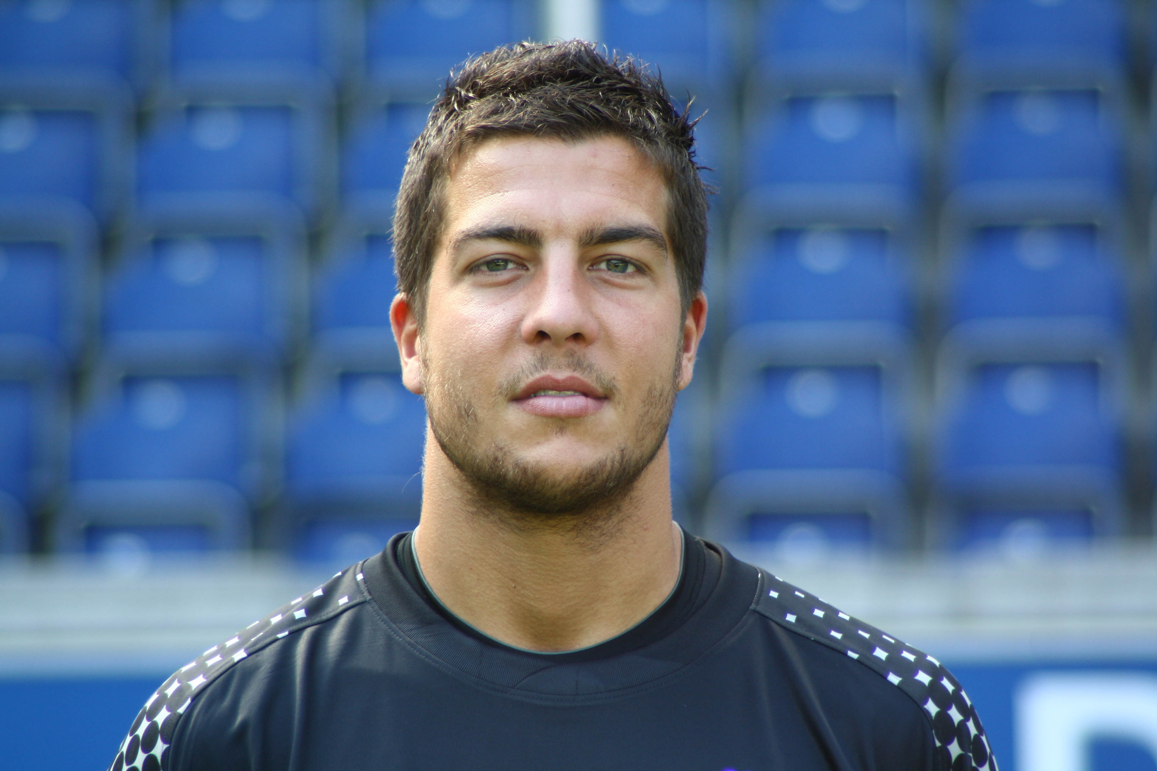 Florian Fromlowitz, MSV Duisburg